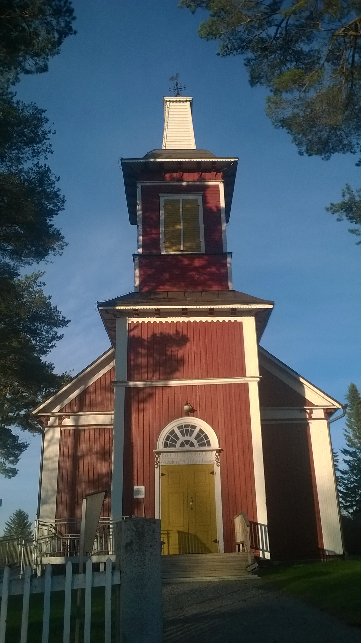 Björköby Church in Korsholm, Finland